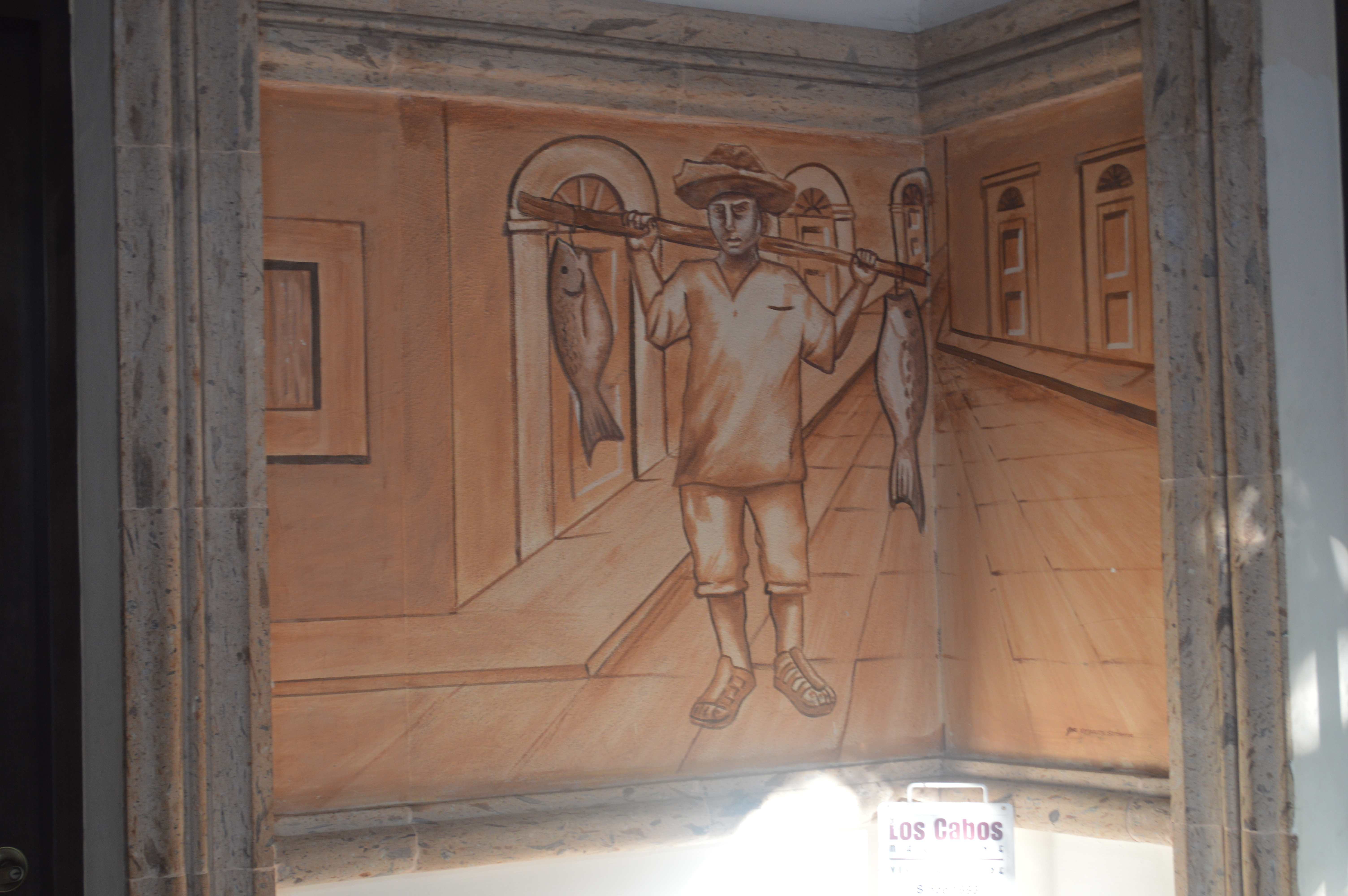 Historical and cultural murals by Xafrerate Sotomayer in the municipal hall in San Jose del Cabo, Baja California Sur